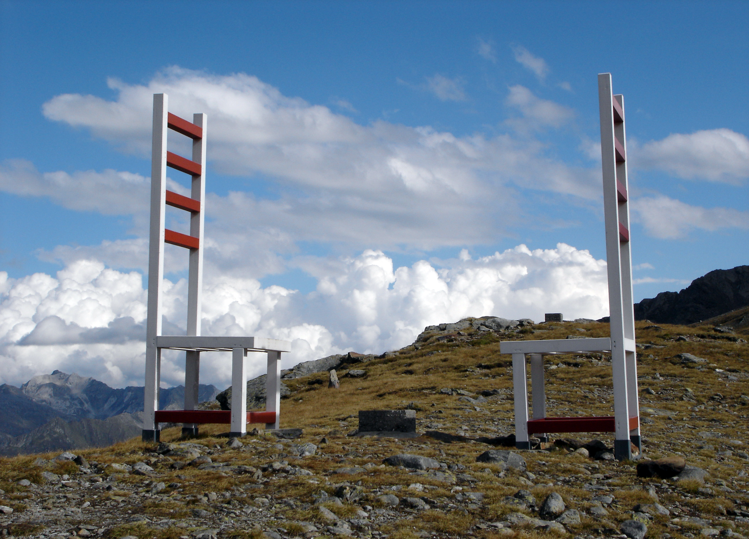 Big Chairs on Timmelsjoch, one on each side of the Austrian-Italian border. Between the chairs is a border stone.